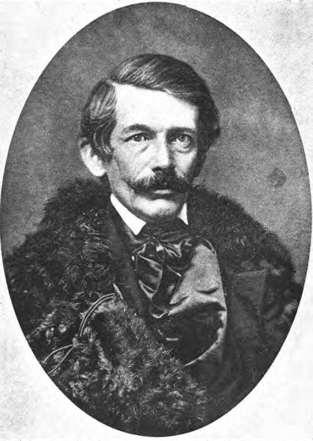 Johann Georg Kohl, New York, 1854. Photo from Deutsche Geographische Blätter. Vol. XI, Nr. 2 (Bremen 1888), facing p. 105